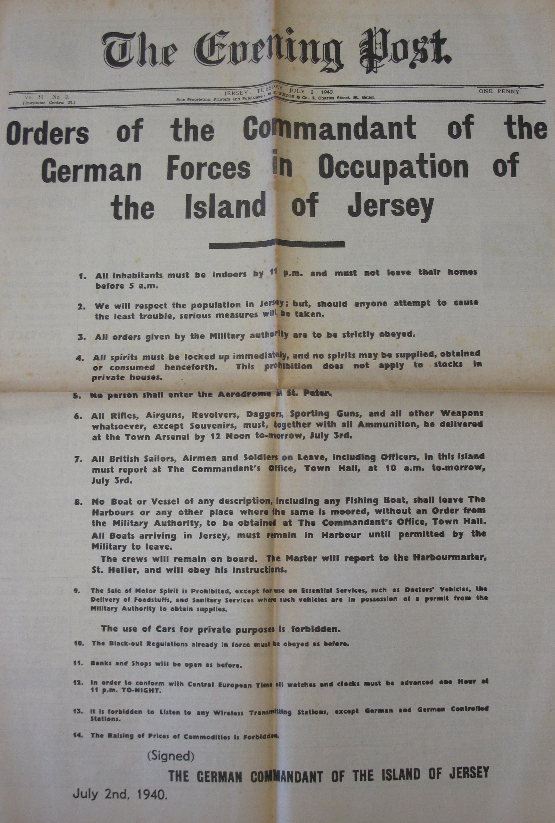 German decree from Occupation of Jersey This image is in the public domain according to German copyright law because it is part of a statute, ordinance, official decree or judgment (official work) issued by a German federal or state authority or court (§ 5 Abs.1 UrhG).